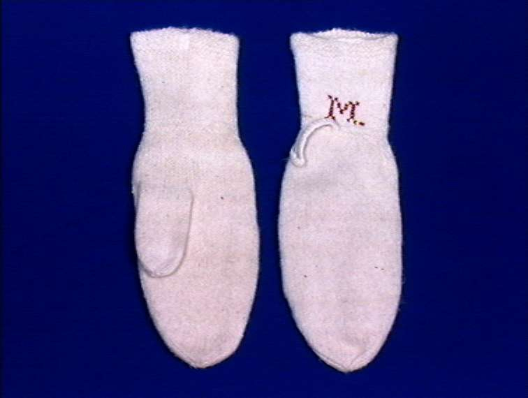 Traditional fisherman's wool mittens (Norwegian=sjøvotter)